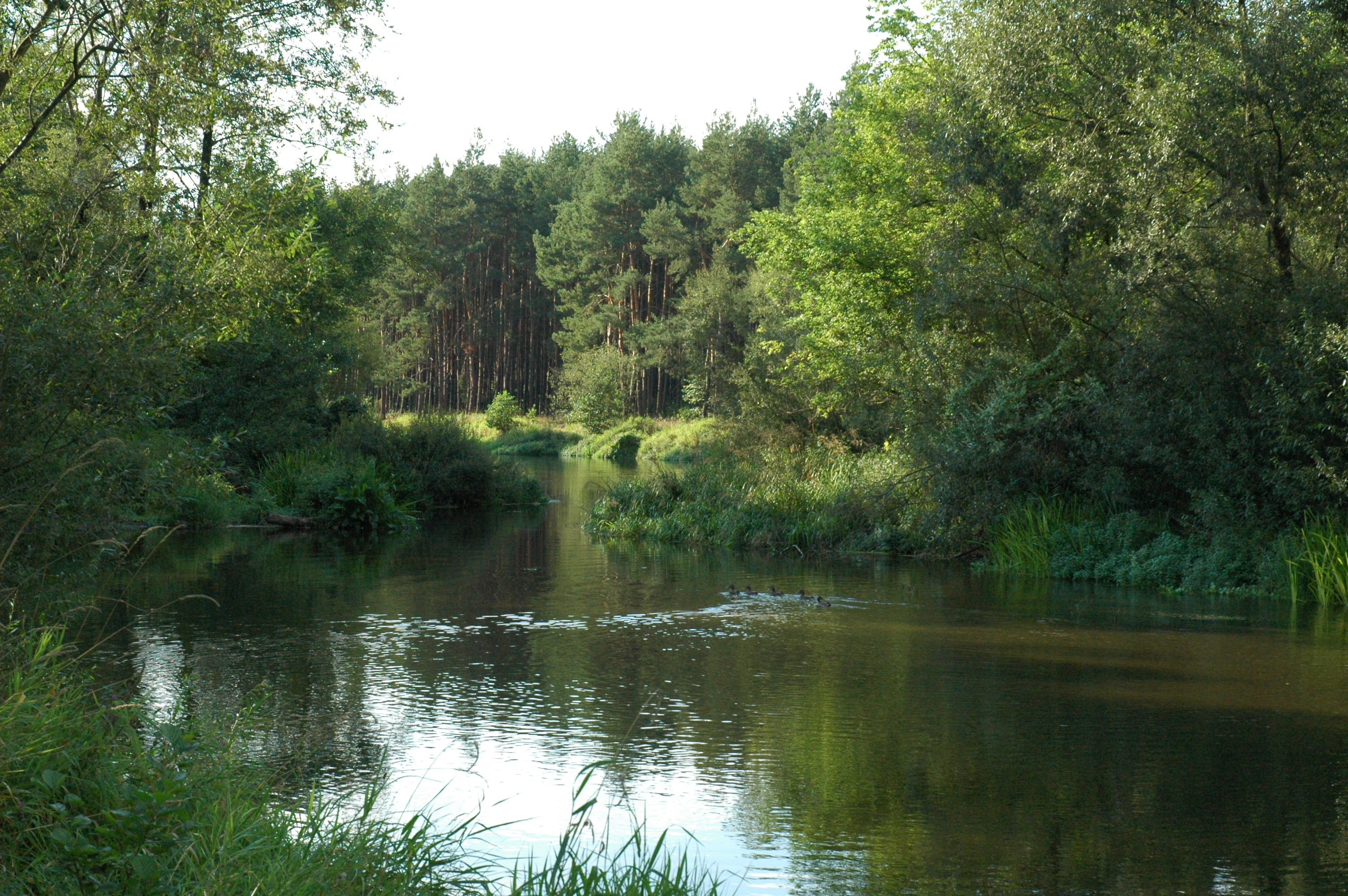 Warta river near Lisowice.